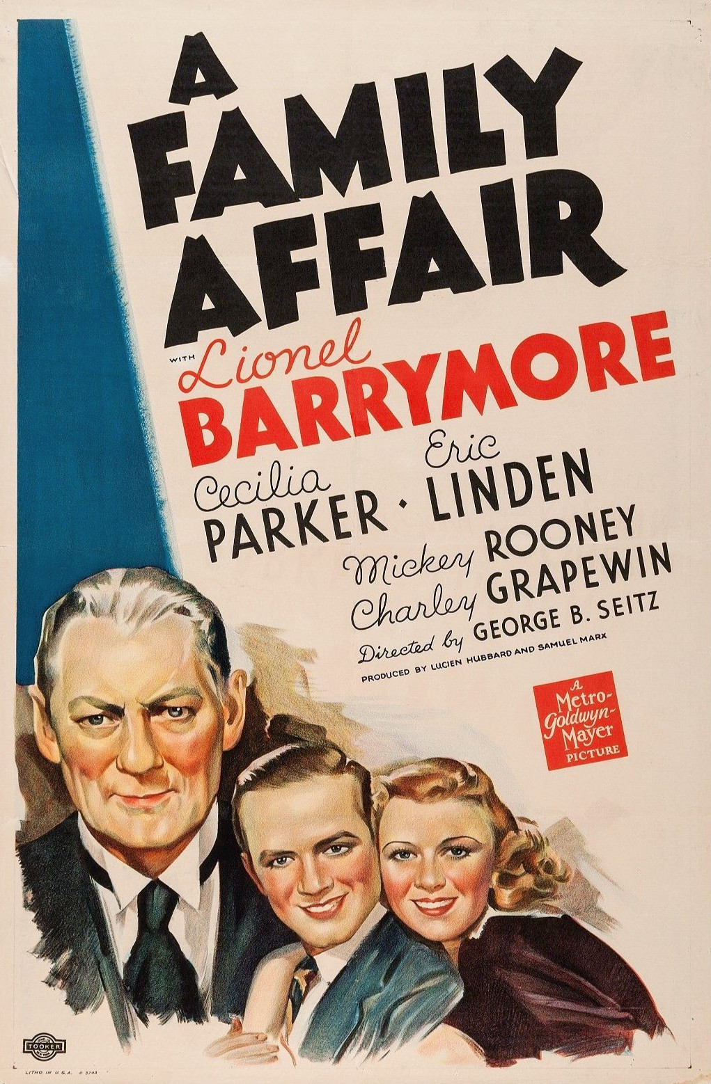 Poster from the American film A Family Affair (1937).